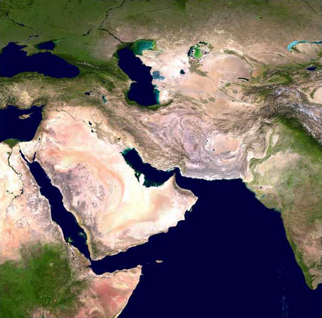 The raw satellite imagery shown in these images was obtain from NASA and/or the US Geological Survey. Post-processing and production by